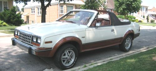 1982 AMC Eagle 4x4 Sundancer convertible, conversion by Griffith.